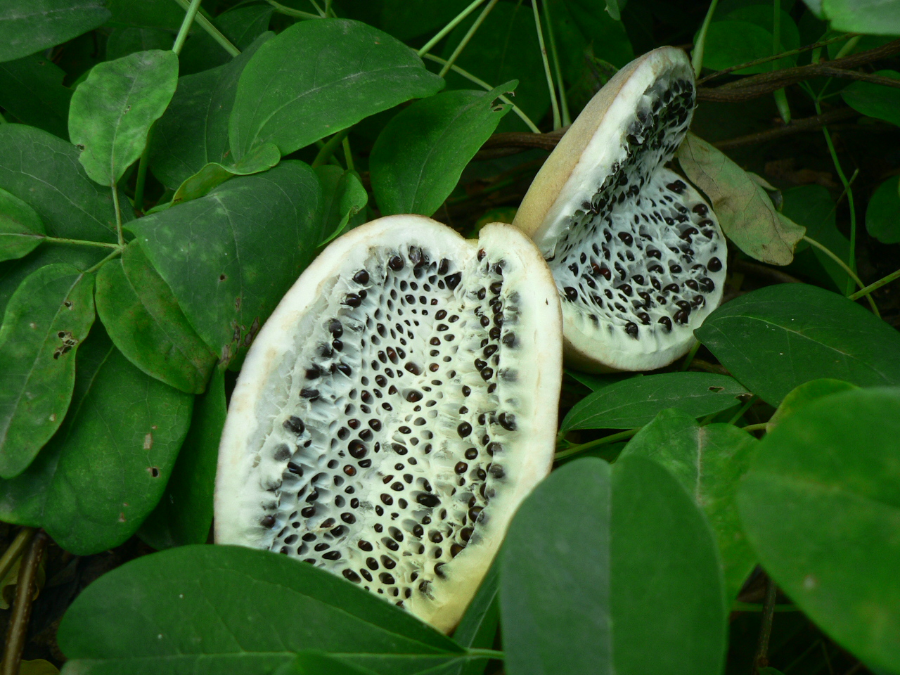 unknown Akebia (fruit)